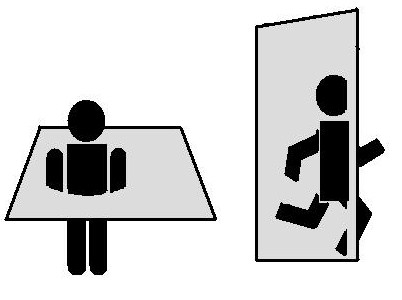 A demonstration of the powers of some comic characters, power that allow them to pass through the walls.